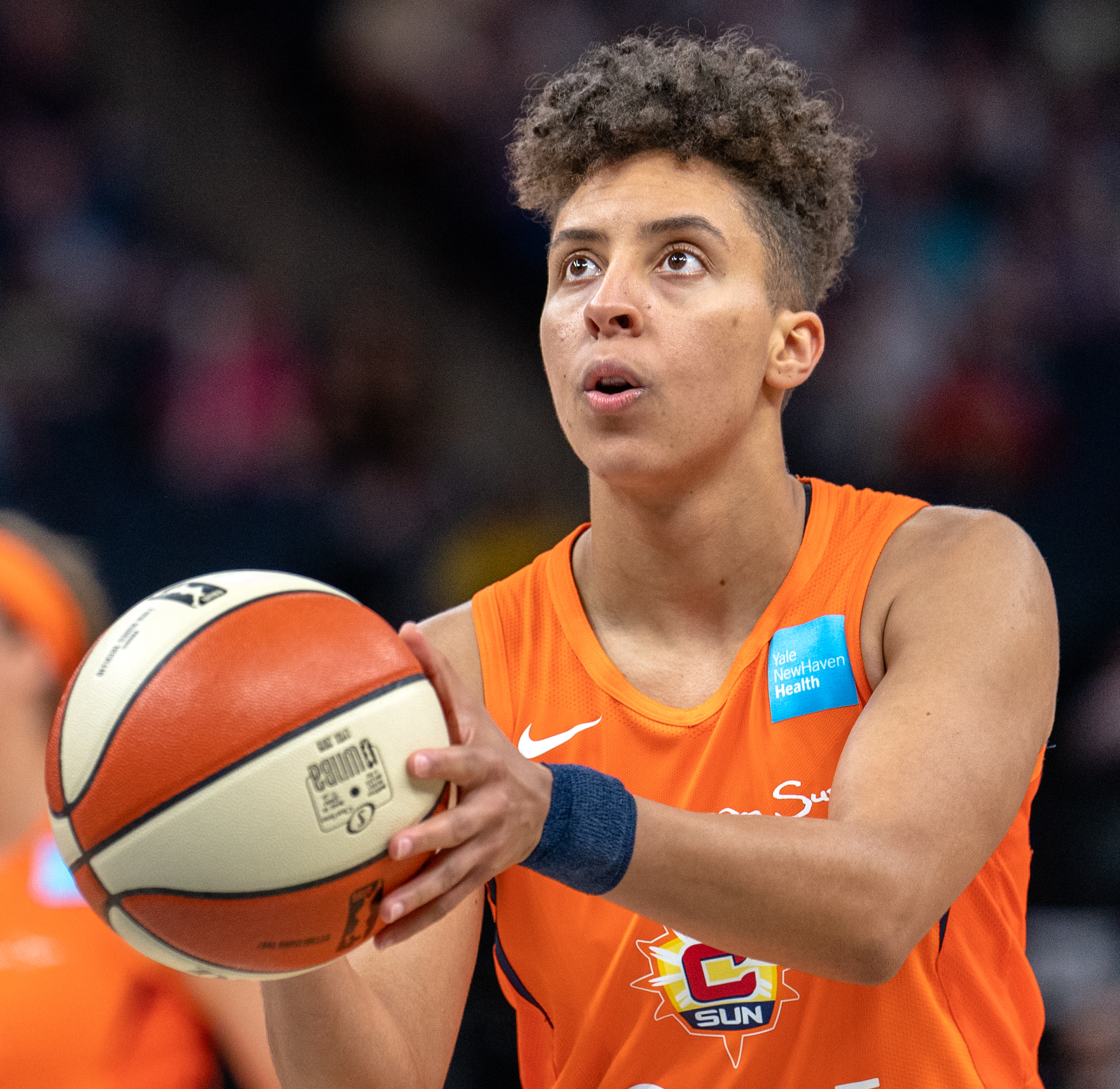 Connecticut Sun player Layshia Clarendon shoots a foul shot in a game against the Minnesota Lynx